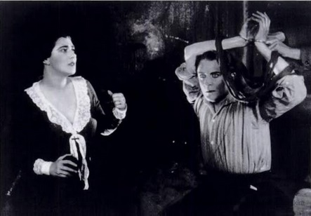 Nita Naldi & Malcolm Keen still of the 1927 film The Mountain Eagle, director: Alfred Hitchcock